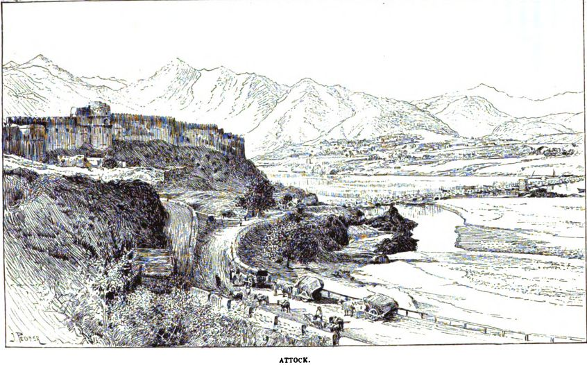 Taken from pg. 246 of "Picturesque India: a handbook for European travellers" by William Sproston Caine